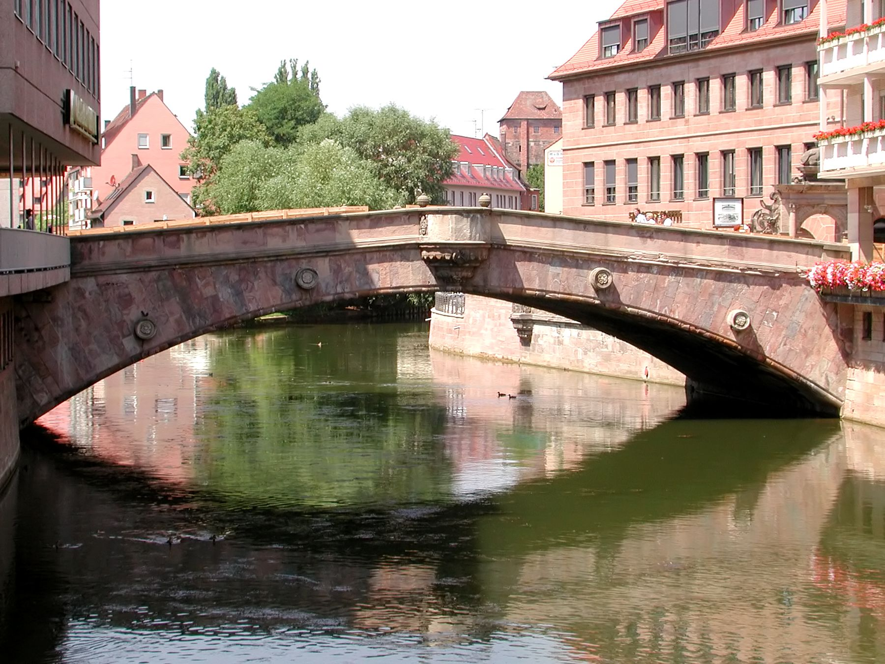 Picture of the Fleischbrücke in Nuremberg from east.